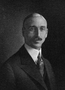 Lew W Tuller, Detroit hotellier